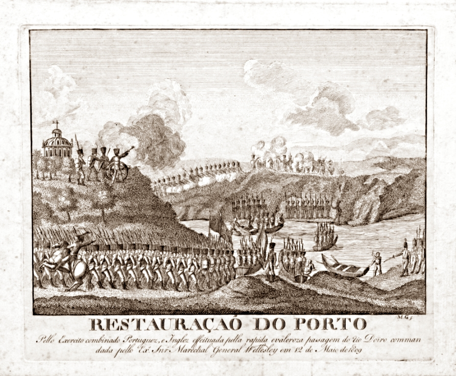 Representing the crossing of the Douro by the Anglo-luso on May 12, 1809. Engraving by Manuel da Silva Godinho (1751-1809)